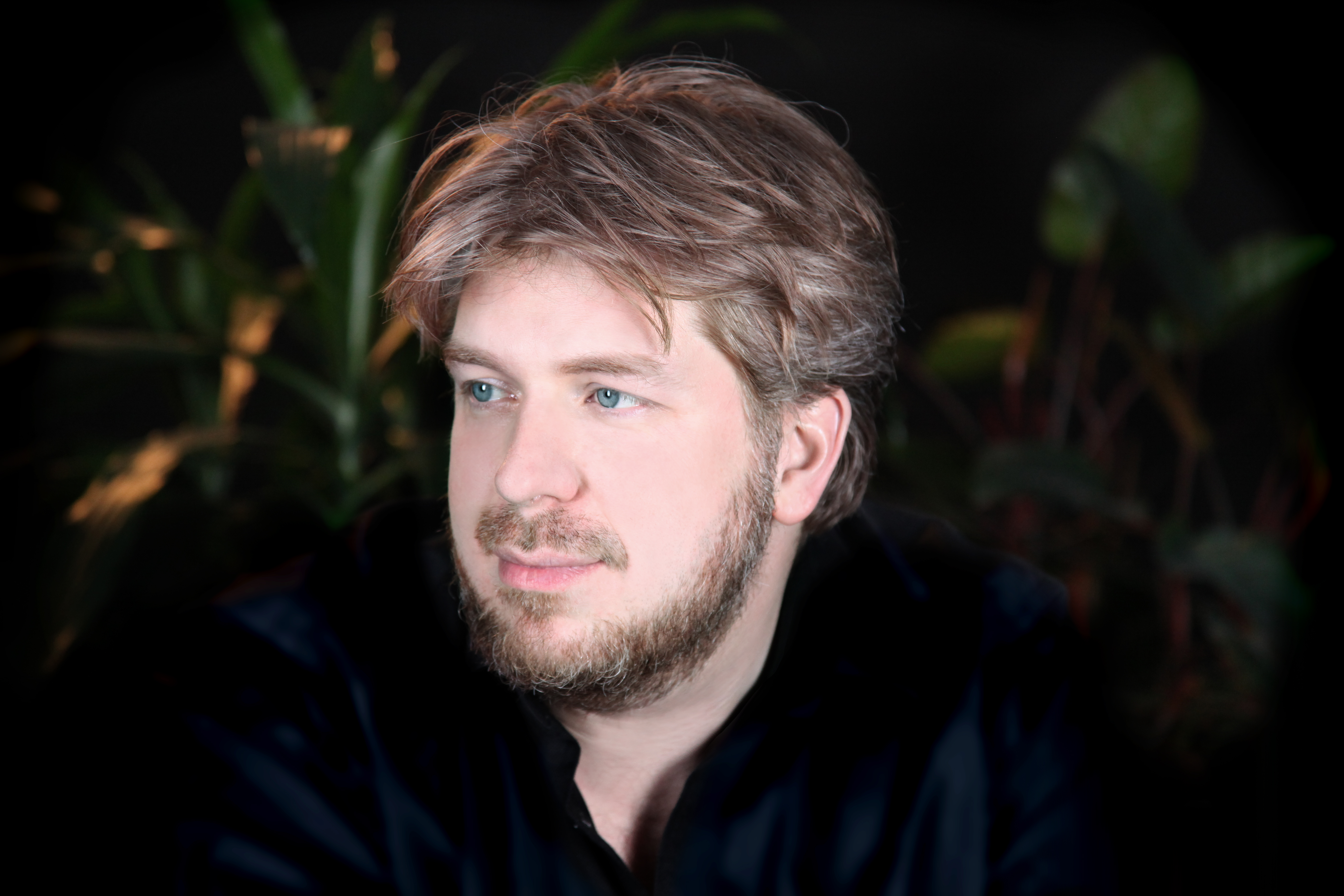 Dave Malloy